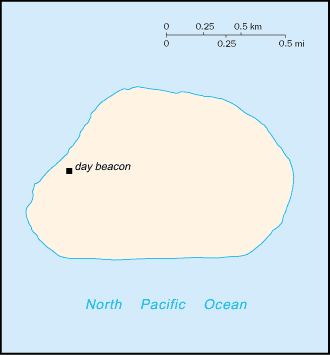 A map of Baker Island, showing major points of interest.